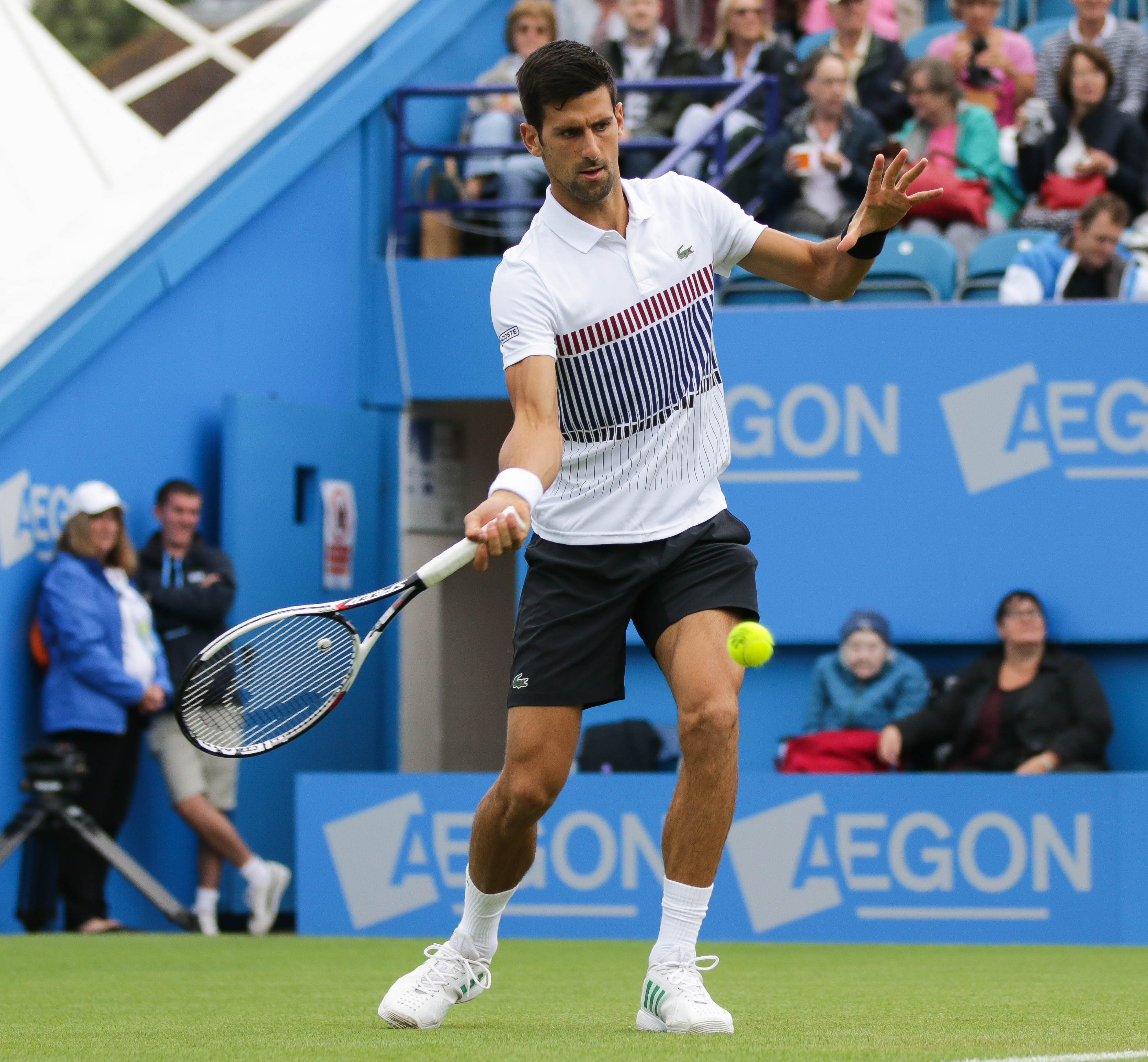 Eastbourne tennis 2017-29.jpg